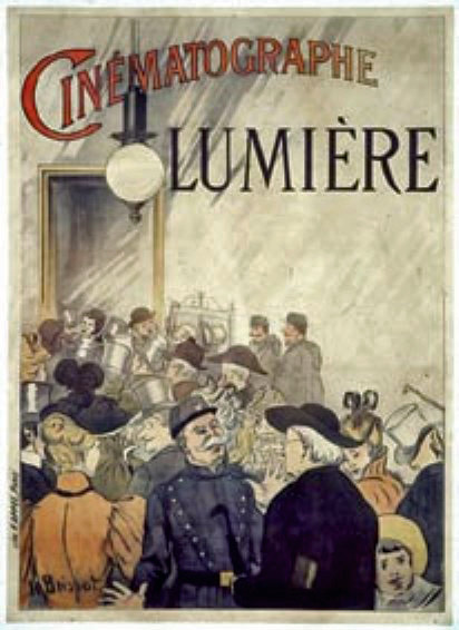 The poster advertising the first Lumière brothers cinematographe, in Dezember 28, 1895 - Paris.